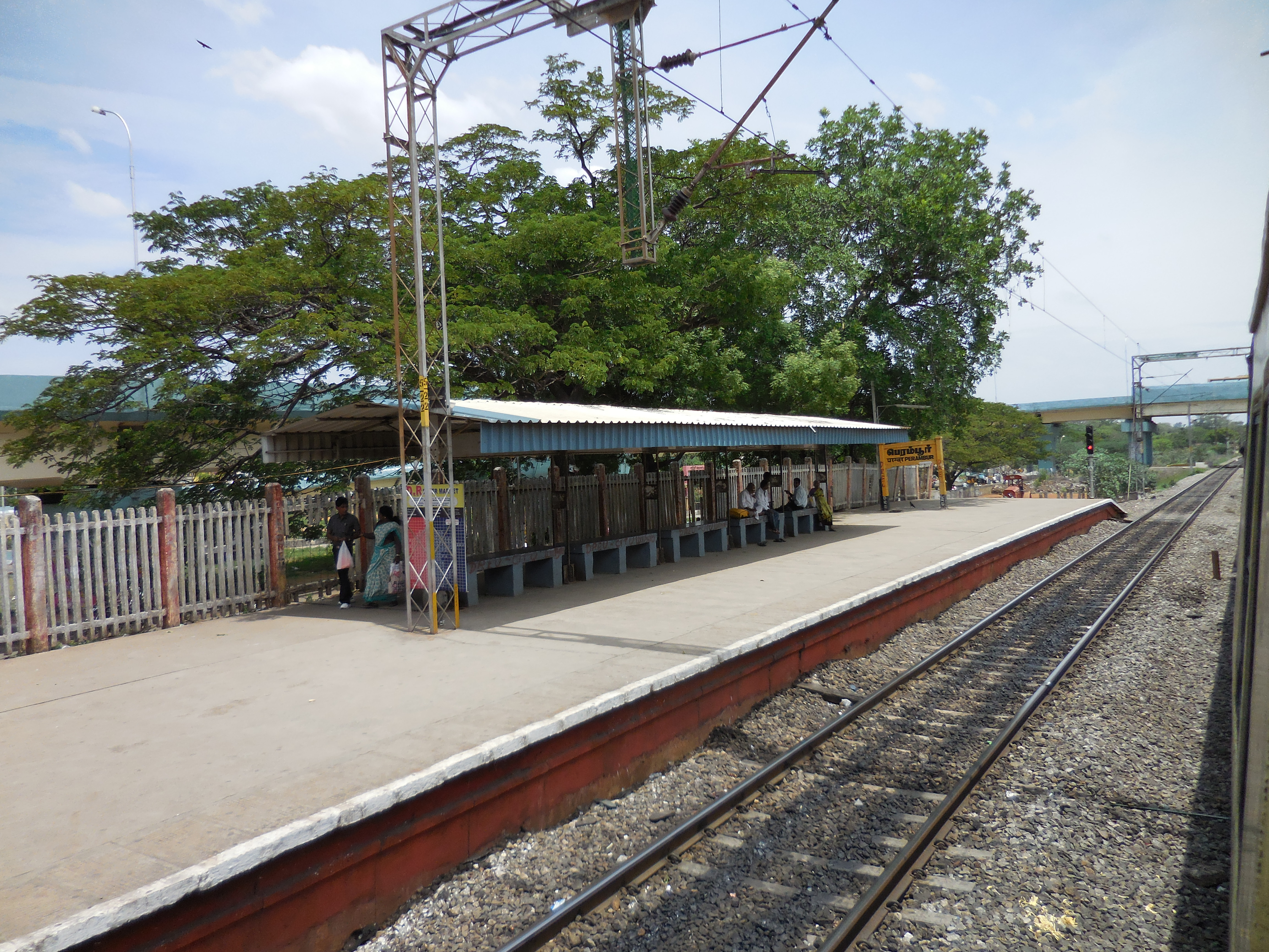 Perambur railway station, Chennai, view towards west, taken on 15 July 2014 at noon.